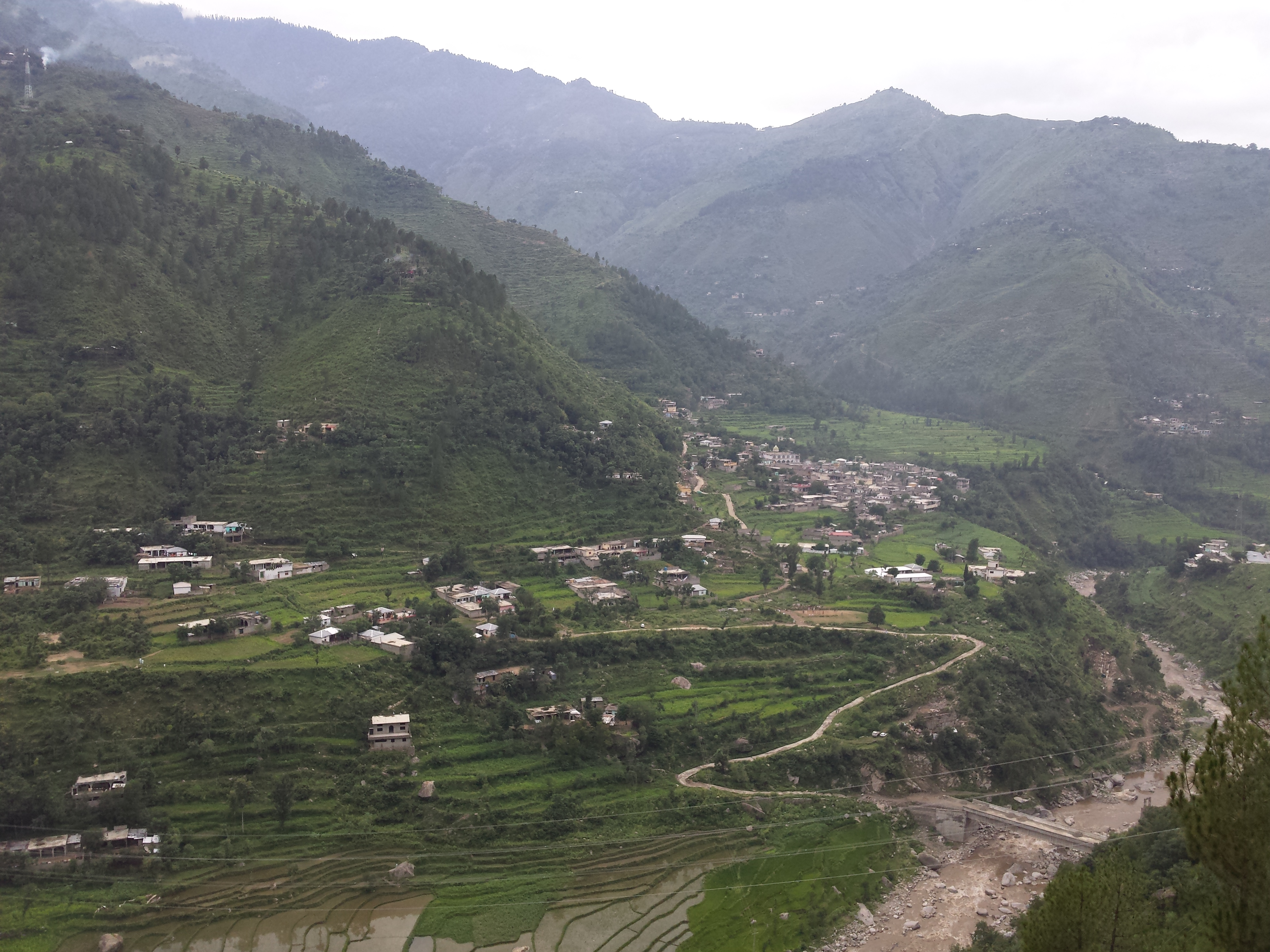 Hotal Kalay is one of the most beautiful village in Distt. Battagram where Deshan people are leaving